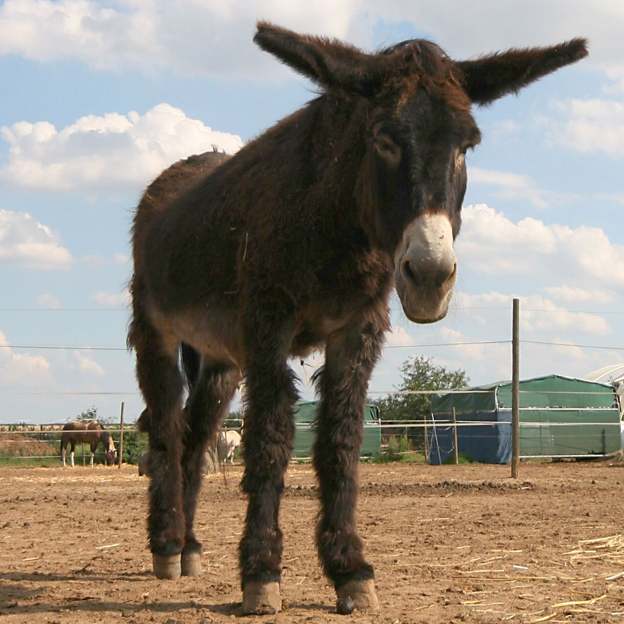 25 year old female catalan donkey »Cleo«. Cleo belongs to the Nature Life Ranch in Schwabenheim, Germany.